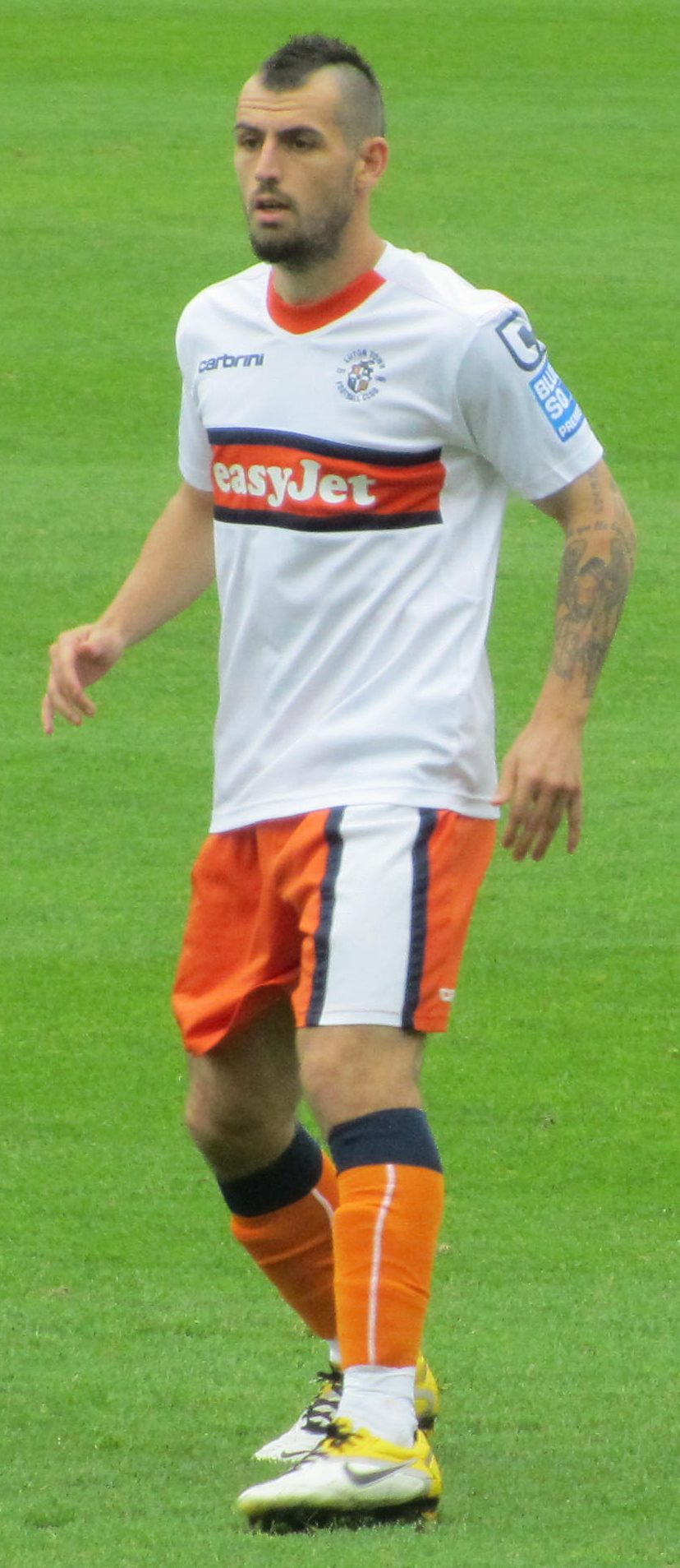 Alex Lawless